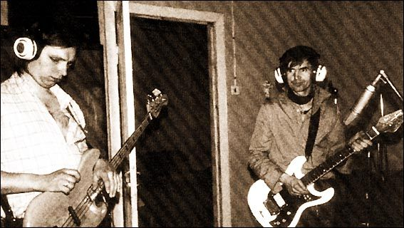 two musicians recording